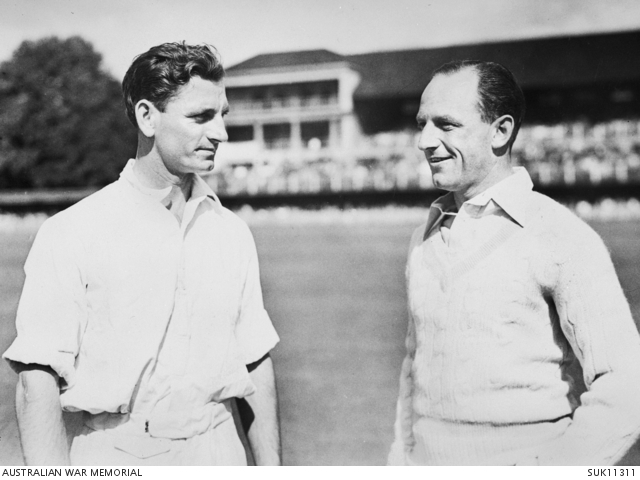 London, England. C. 1943-07. Portrait of the captains, 420138 Flying Officer D. K. Carmody of Sydney, NSW, Dominions (left) and Squadron Leader R. W. V. Robins, England at a cricket match at Lords. This is Robins first match in England since his return after an absence of two years.